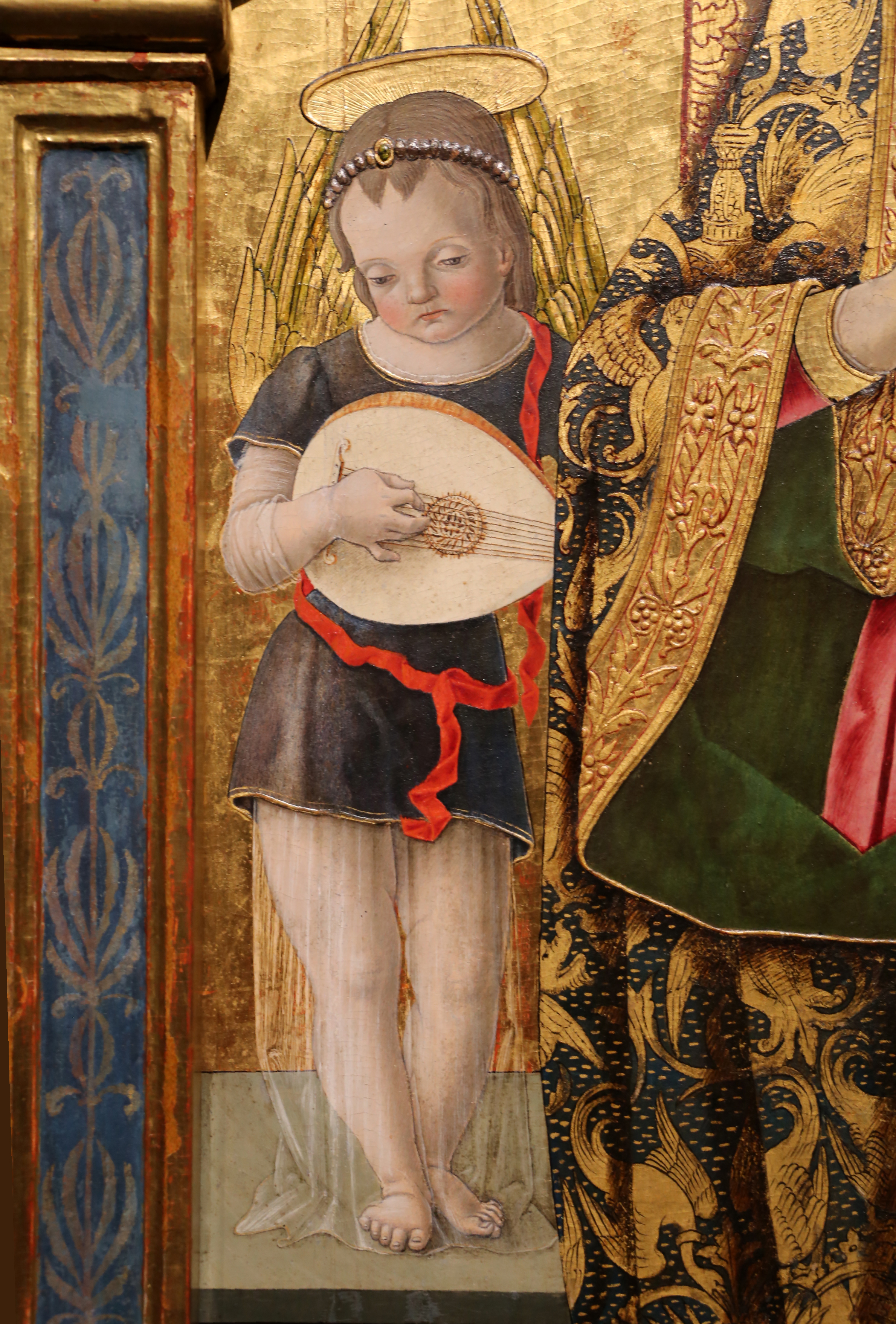 Falerone Madonna by Vittore Crivelli